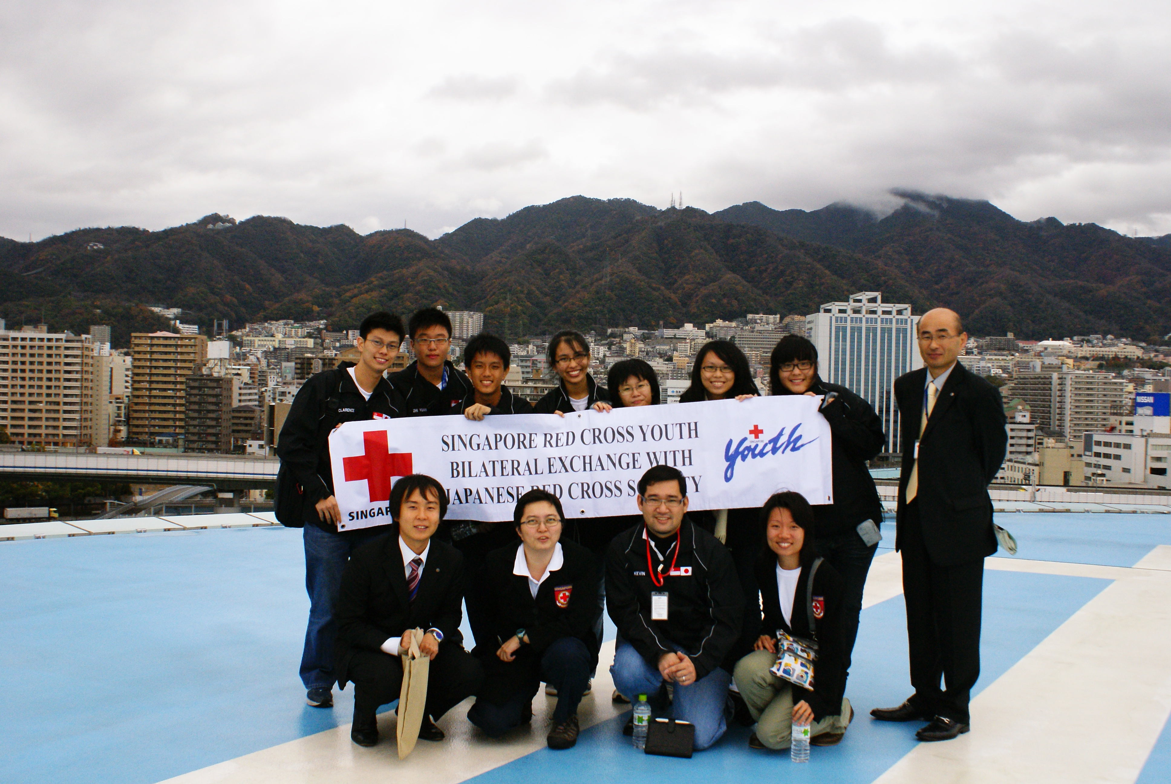 International Exchange Programme